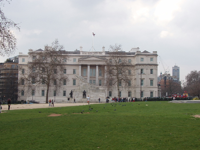 Lanesborough Hotel, former St George's Hospital Built in 1719, it became St George's Hospital in 1733, intended to be in the fresh air of the countryside of the village of Knightsbridge. It was rebuilt in 1827. Its location on Hyde Park Corner is now on one of the busiest road junctions in London, and the hospital has moved to Tooting. The Artillery Memorial can be seen in front of the hotel.